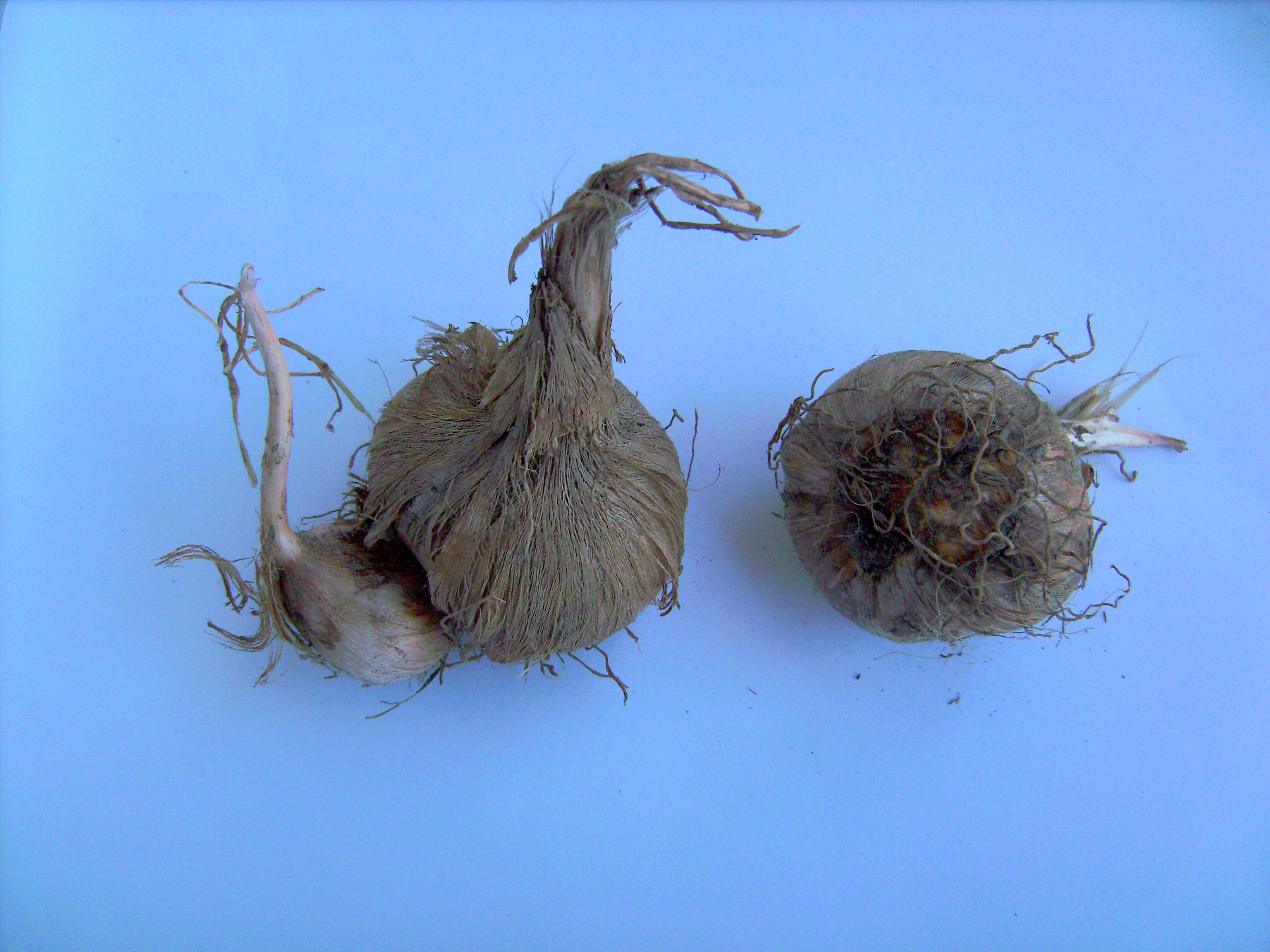 Corms of Crocus sativus, Castelltallat, Catalonia